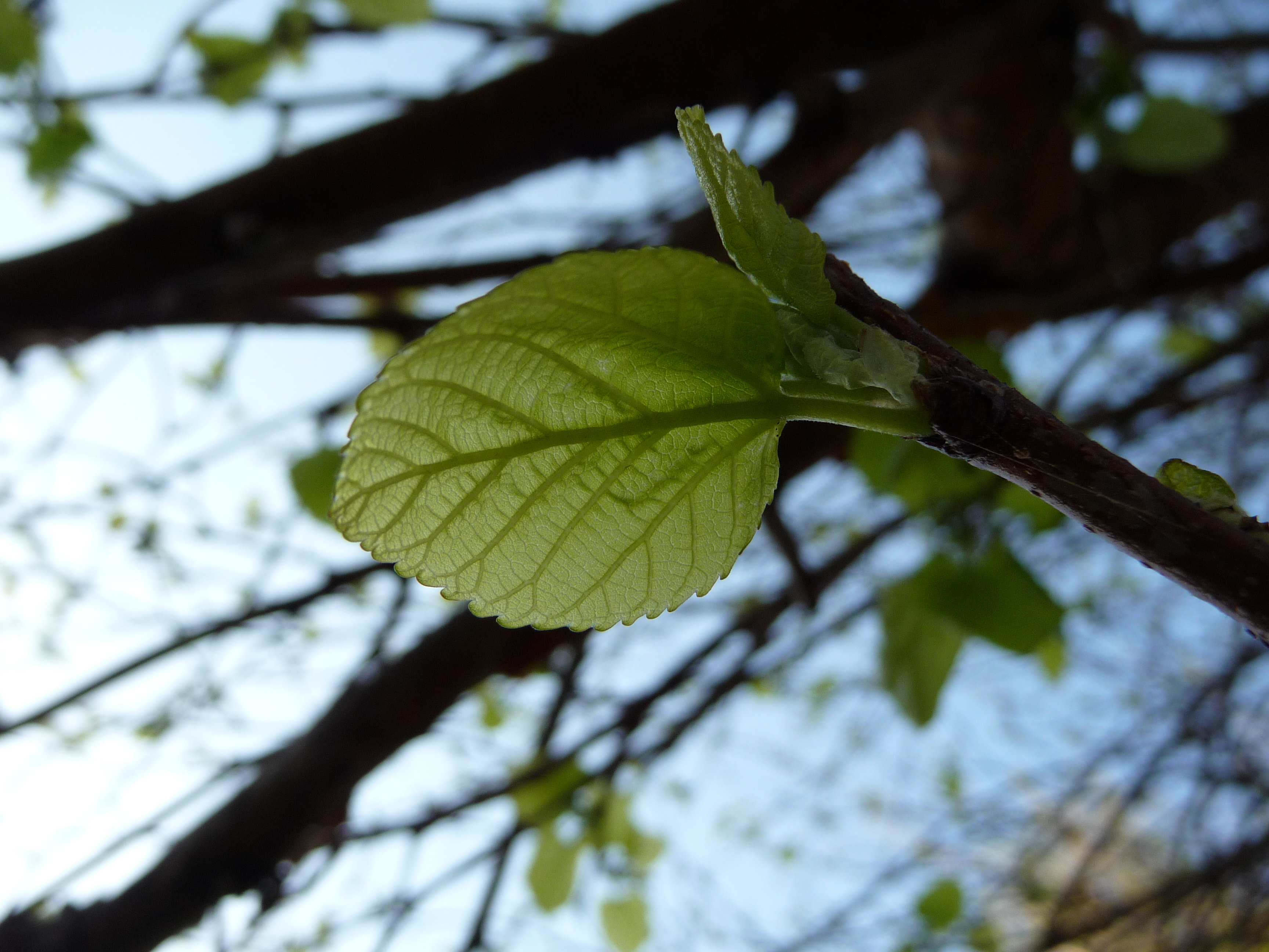 Beit Oren is a kibbutz in northern Israel. It falls under the jurisdiction of Hof HaCarmel Regional Council.